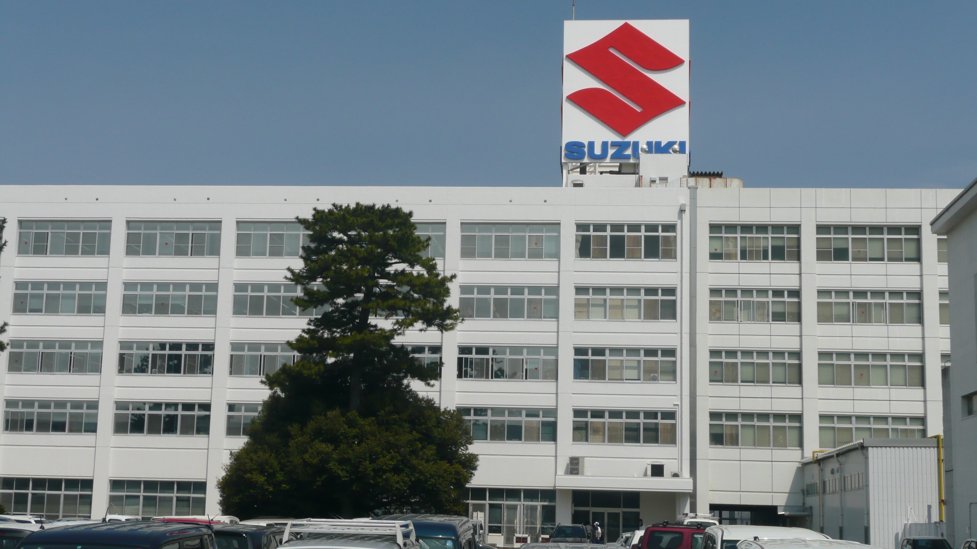 Suzuki Headquarter in Hamamatsu, Japan